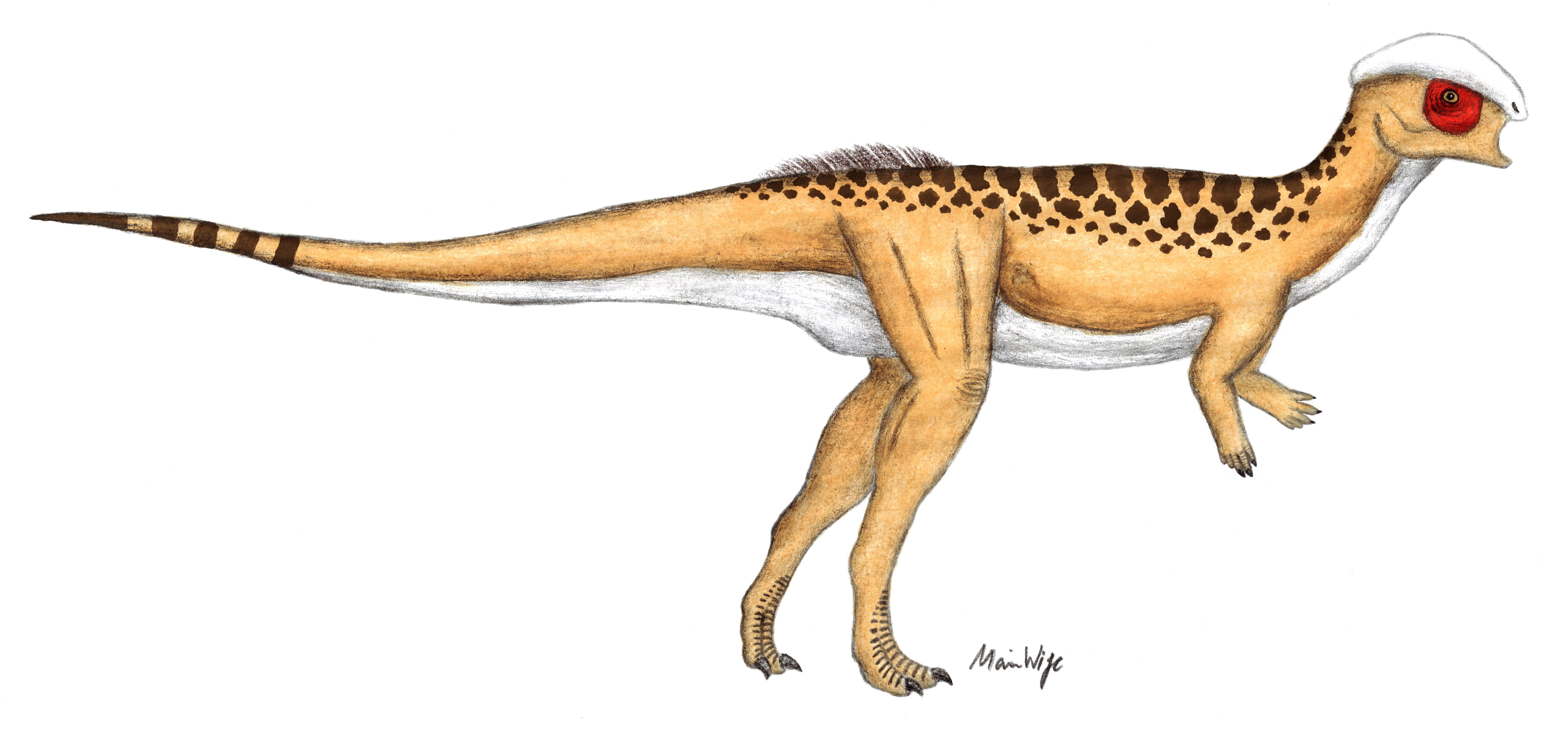 Reconstruction of Hanssuesia sternbergi, a pchycephalosaur from Canada.